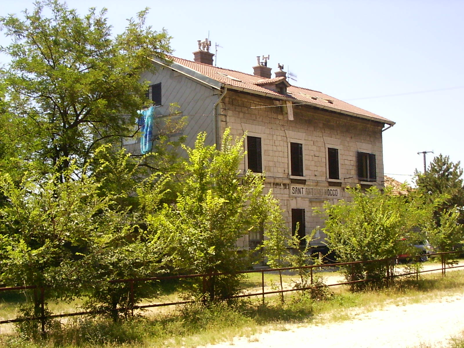 Sant'Antonio Mocco former train station